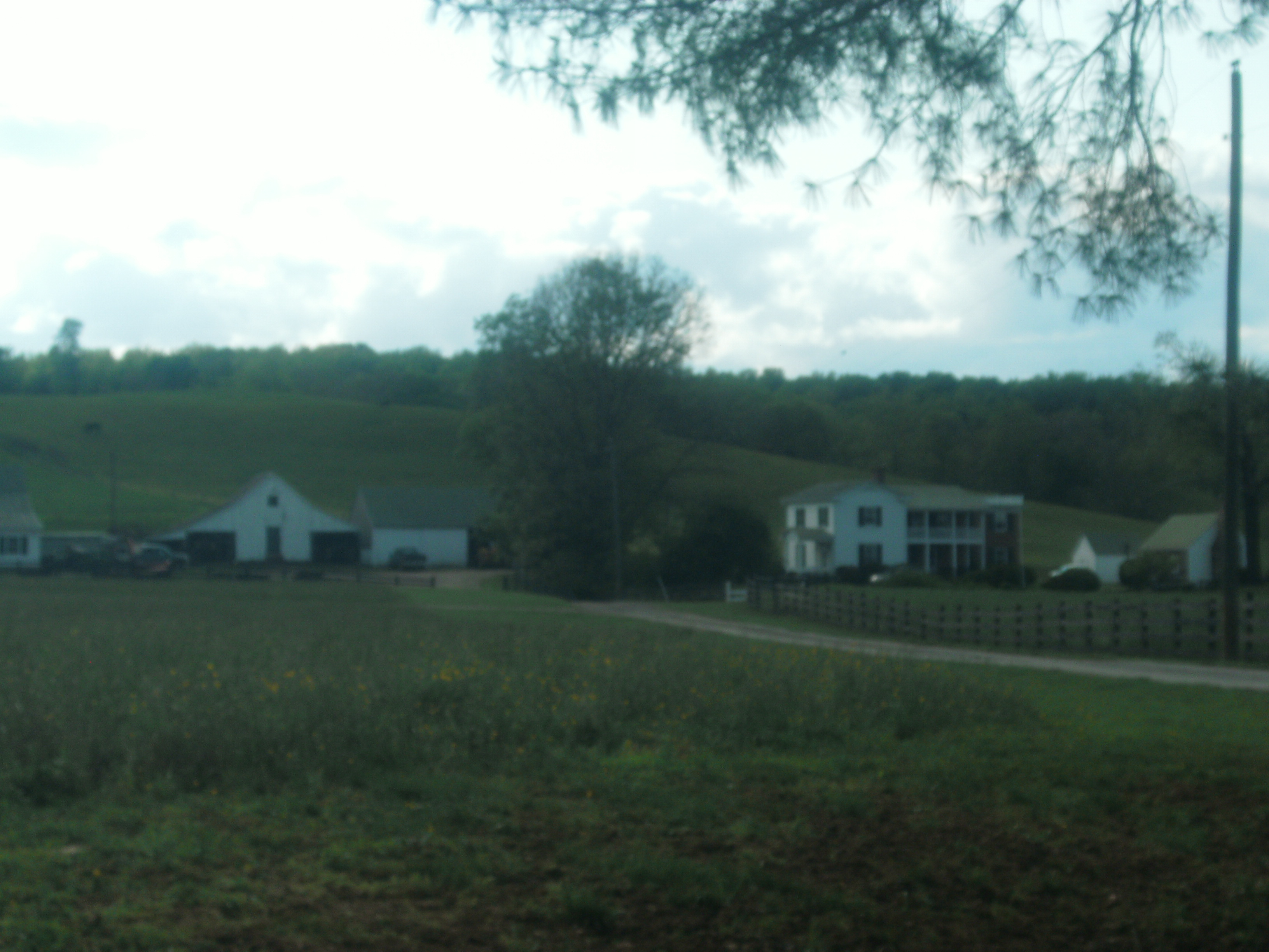 Taken by me in May, 2016 GEDSC DIGITAL CAMERA